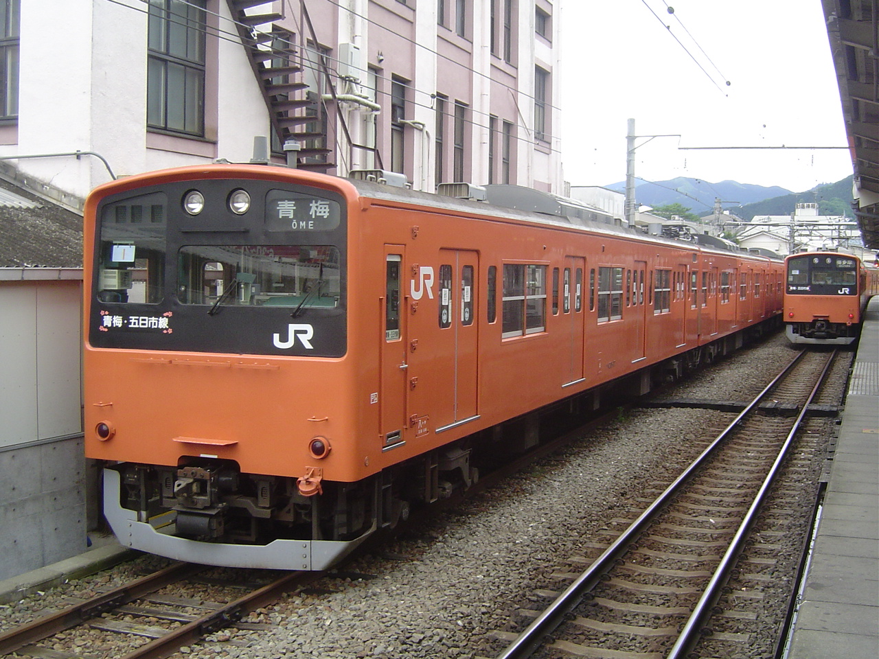 JR East 201 series (For Ome and Itsukaichi Line), Taken at Ome Station